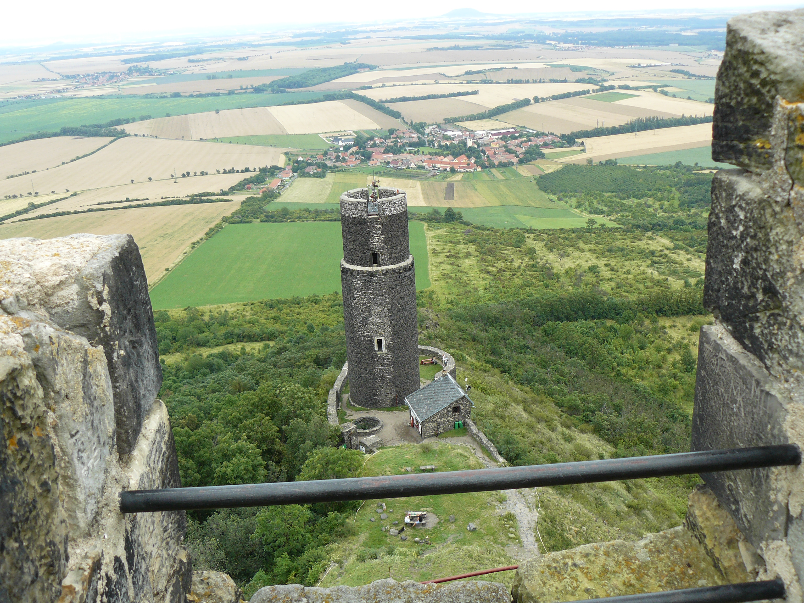 Ruins of Hazmburg castle in Czech Republic